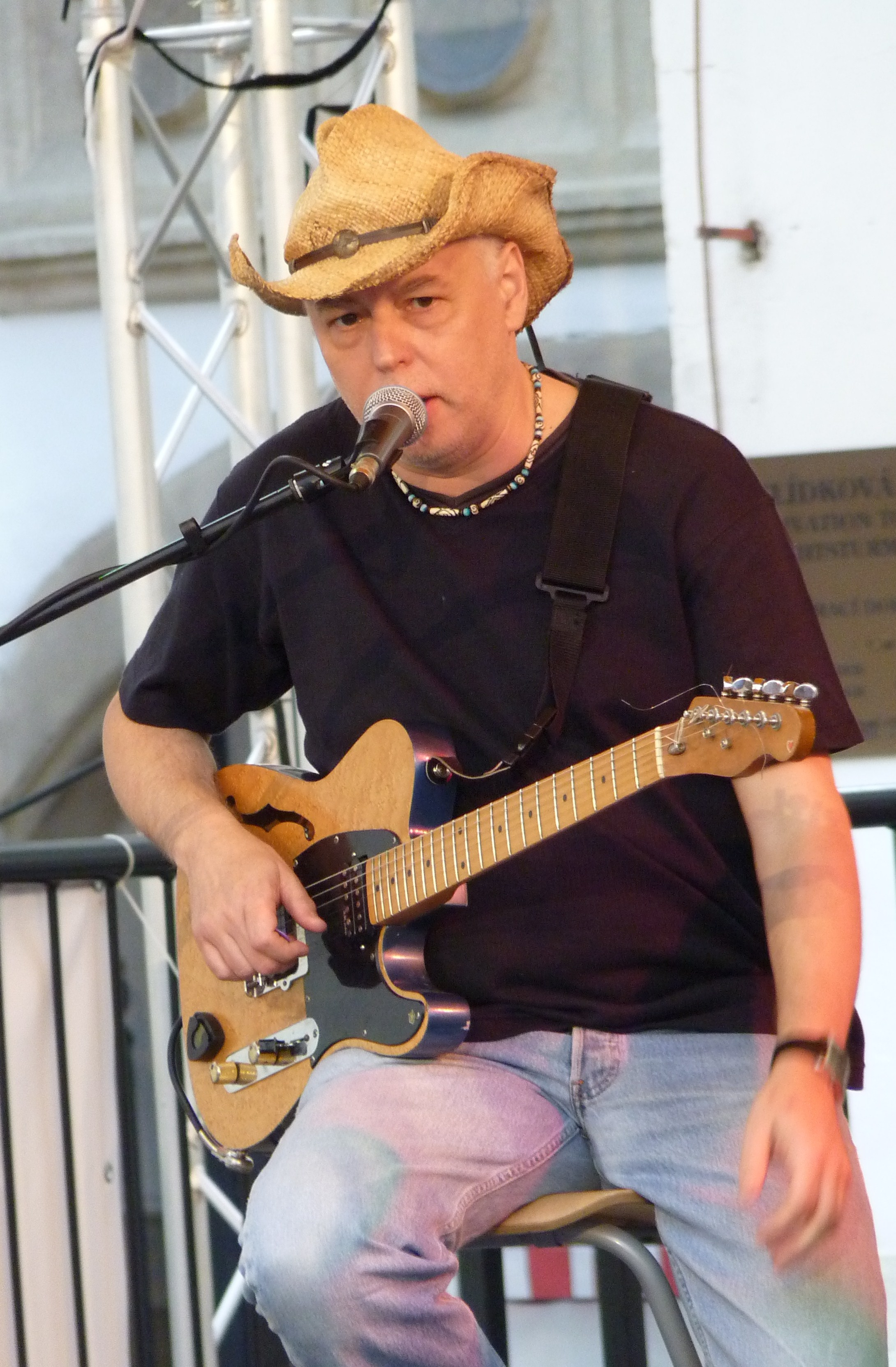 Josef Karafiát (Czech musical group The Plastic People of the Universe. Old Town in Brno, 13th June 2010)